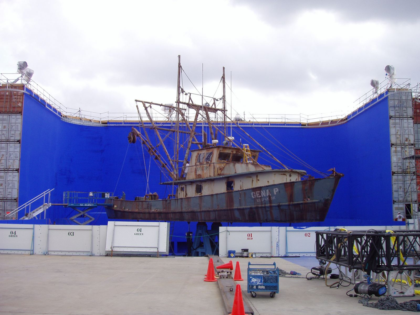 A boat placed on a hydraulic gimbal used for filming The Guardian